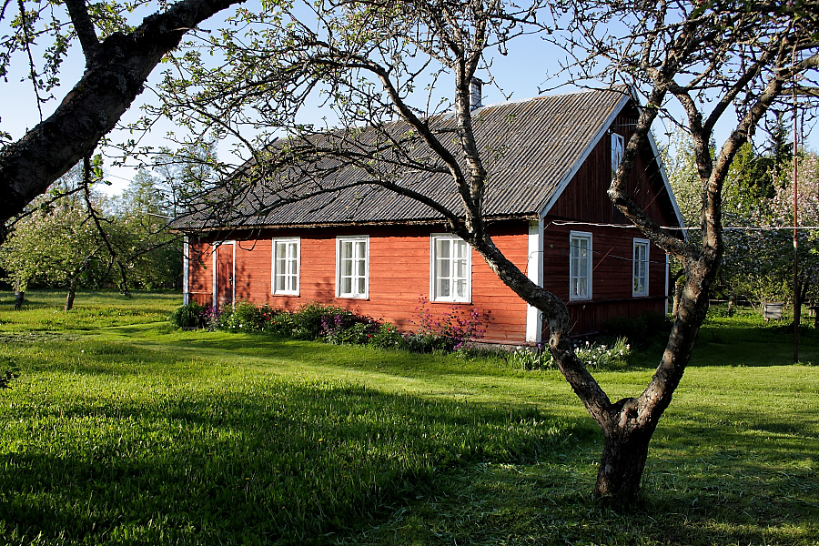 Farmhouse in Vormsi. Estonia